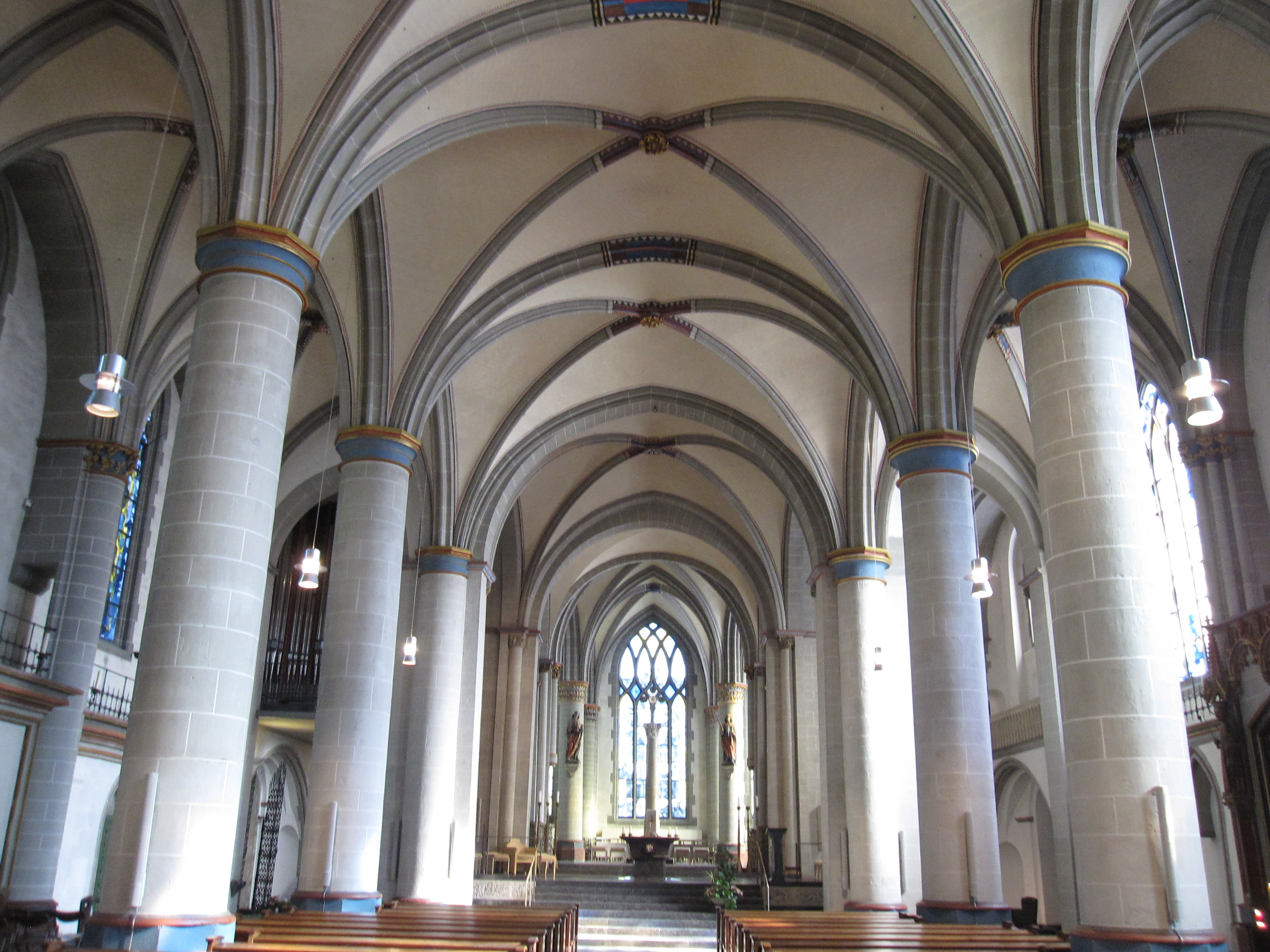 Essen Minster.